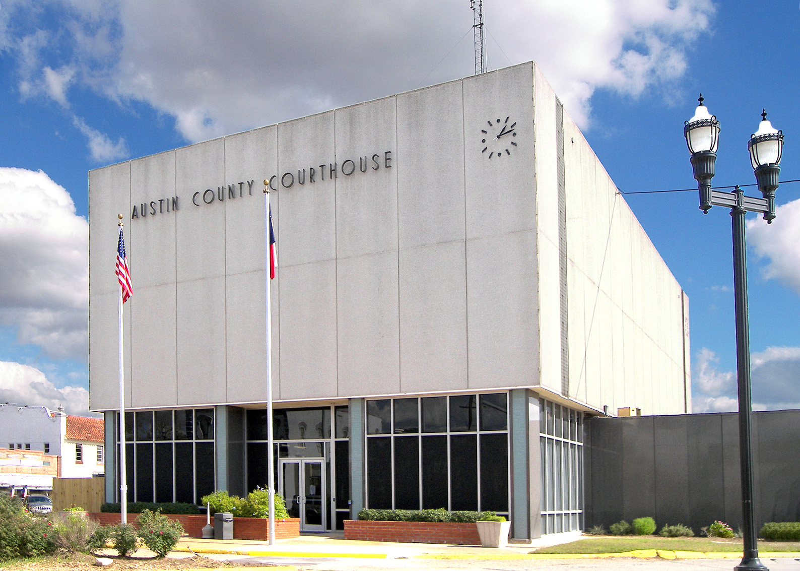 The Austin County, Texas courthouse located in Bellville, Texas, United States.